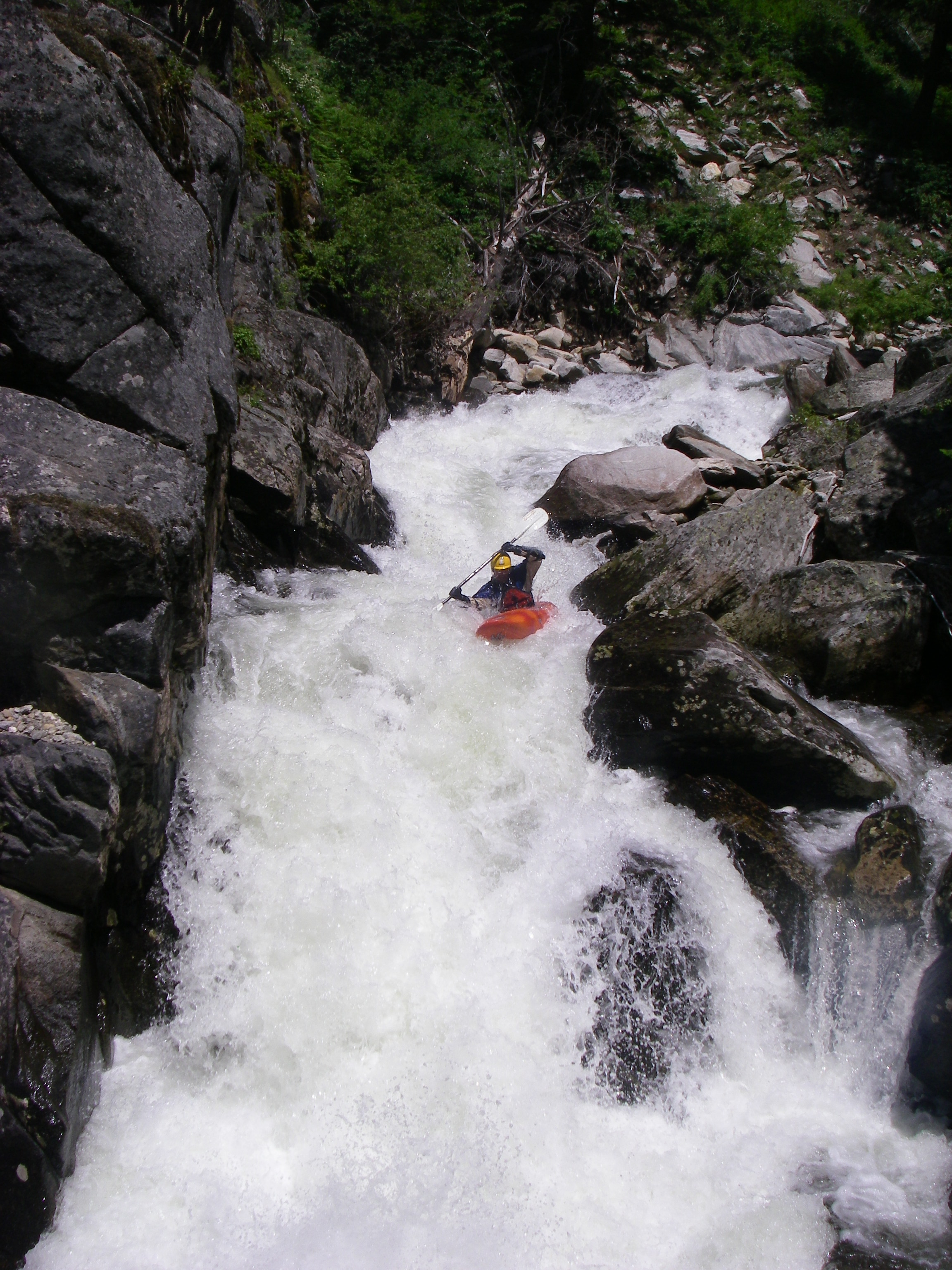 Jared Alexander creeking on Hazard Creek in Idaho.